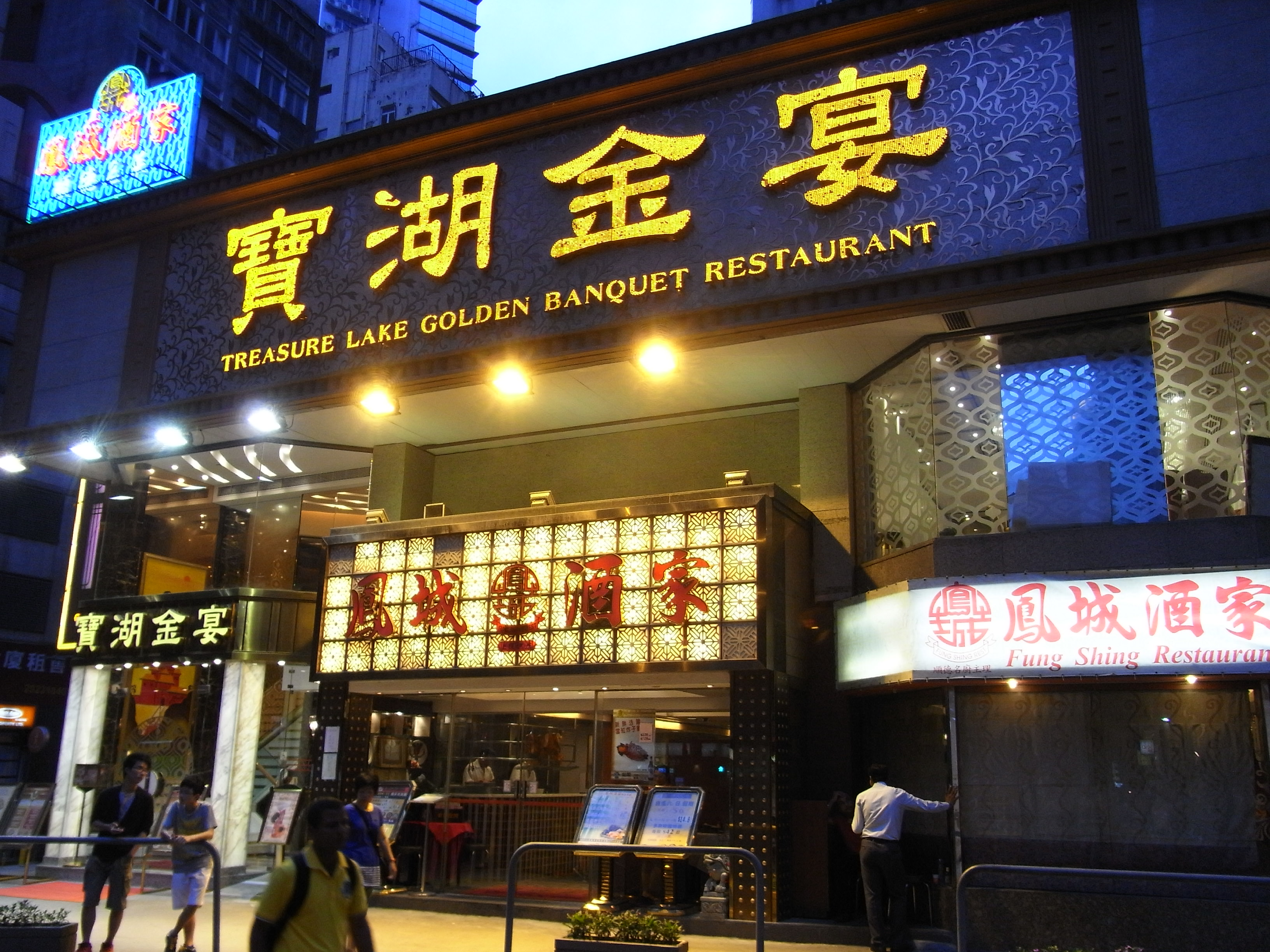 Night in Treasure Lake Golden Banquet Restaurant, Sheung Wan, Hong Kong